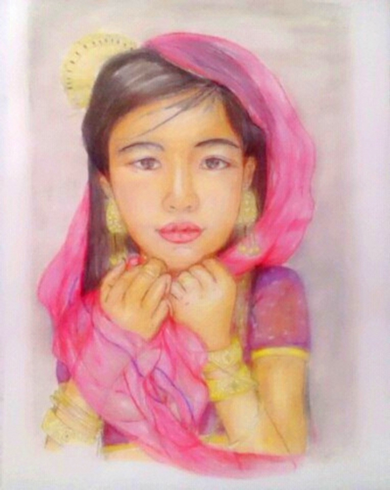 A painting of a young woman of the Noble Maginoo caste adorned with gold ornaments. Tagalog: Isang larawan ng dalagitang kabilang sa Maharlikang uri ng lipunang nakasuot ng mga magagarang alahas na ginto.